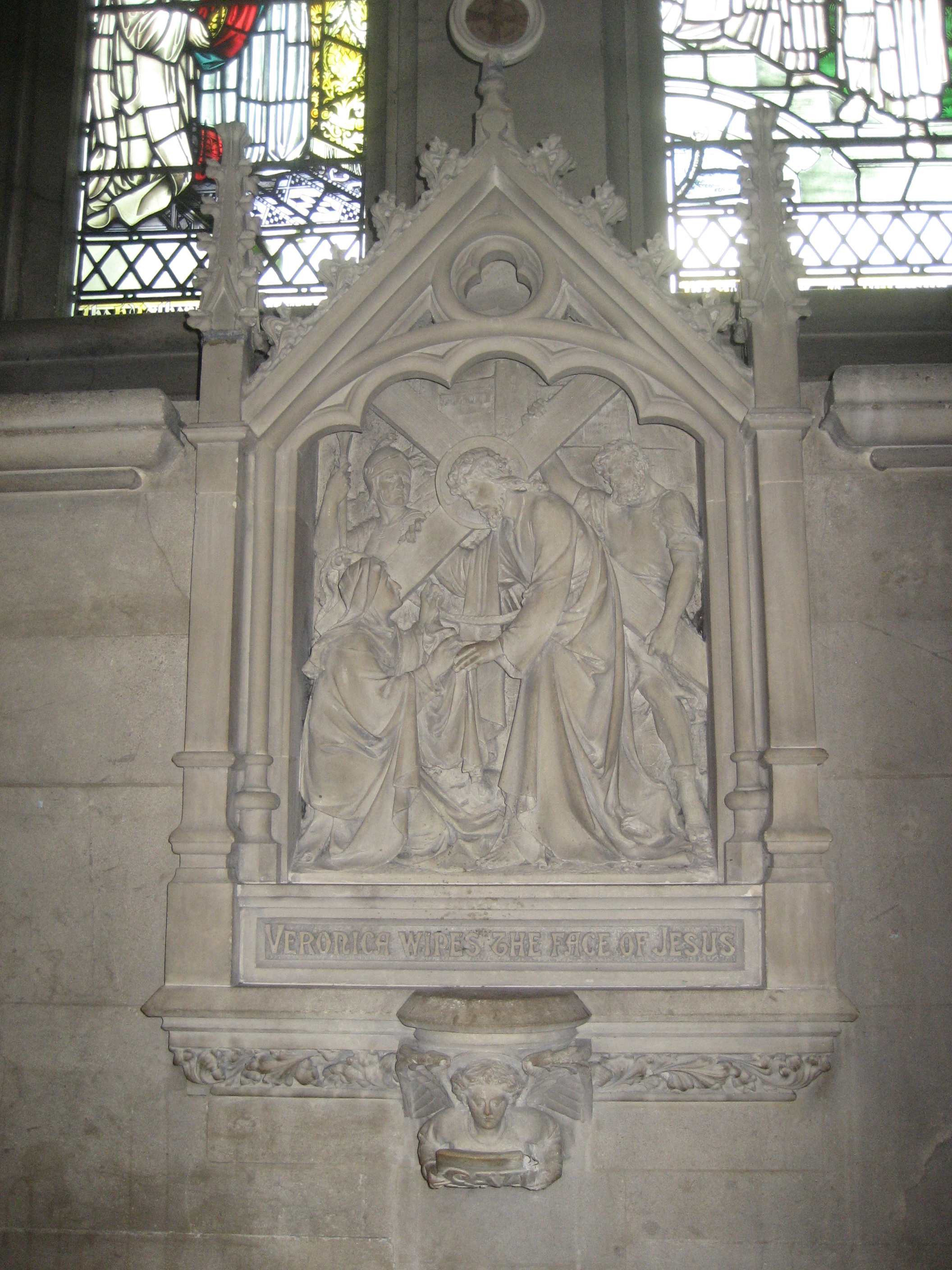 "Veronice wipes the face of Jezus". Sculpture in Our Lady and the English Martyrs Church in Cambridge